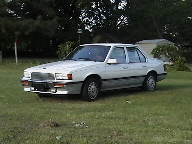 1988 Cadillac Cimarron sedan, in cotillion white